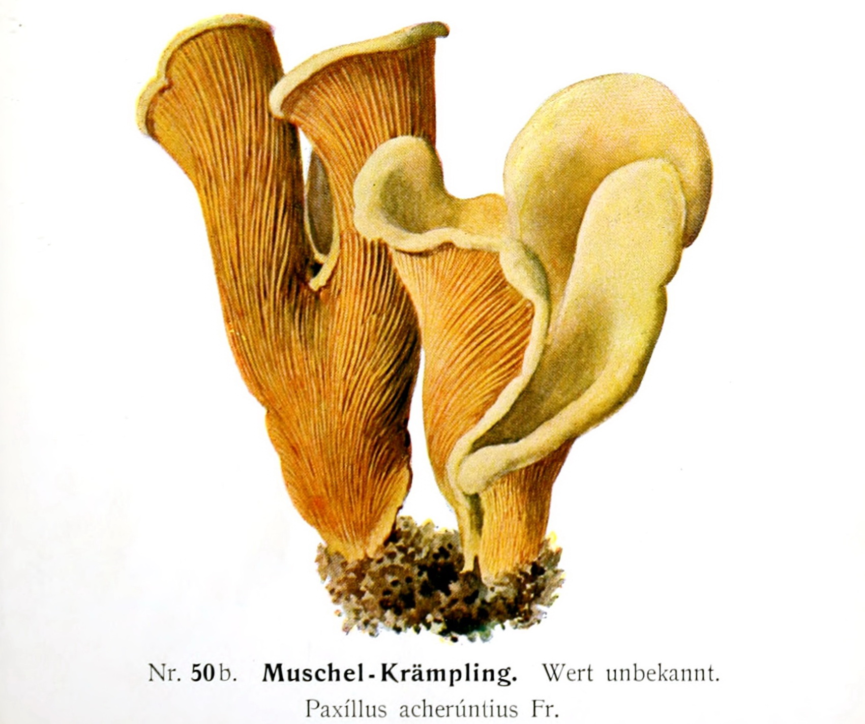 Tapinella panuoides (as Paxillus acheruntius) from "Führer für Pilzfreunde", t. III by Michael Edmund